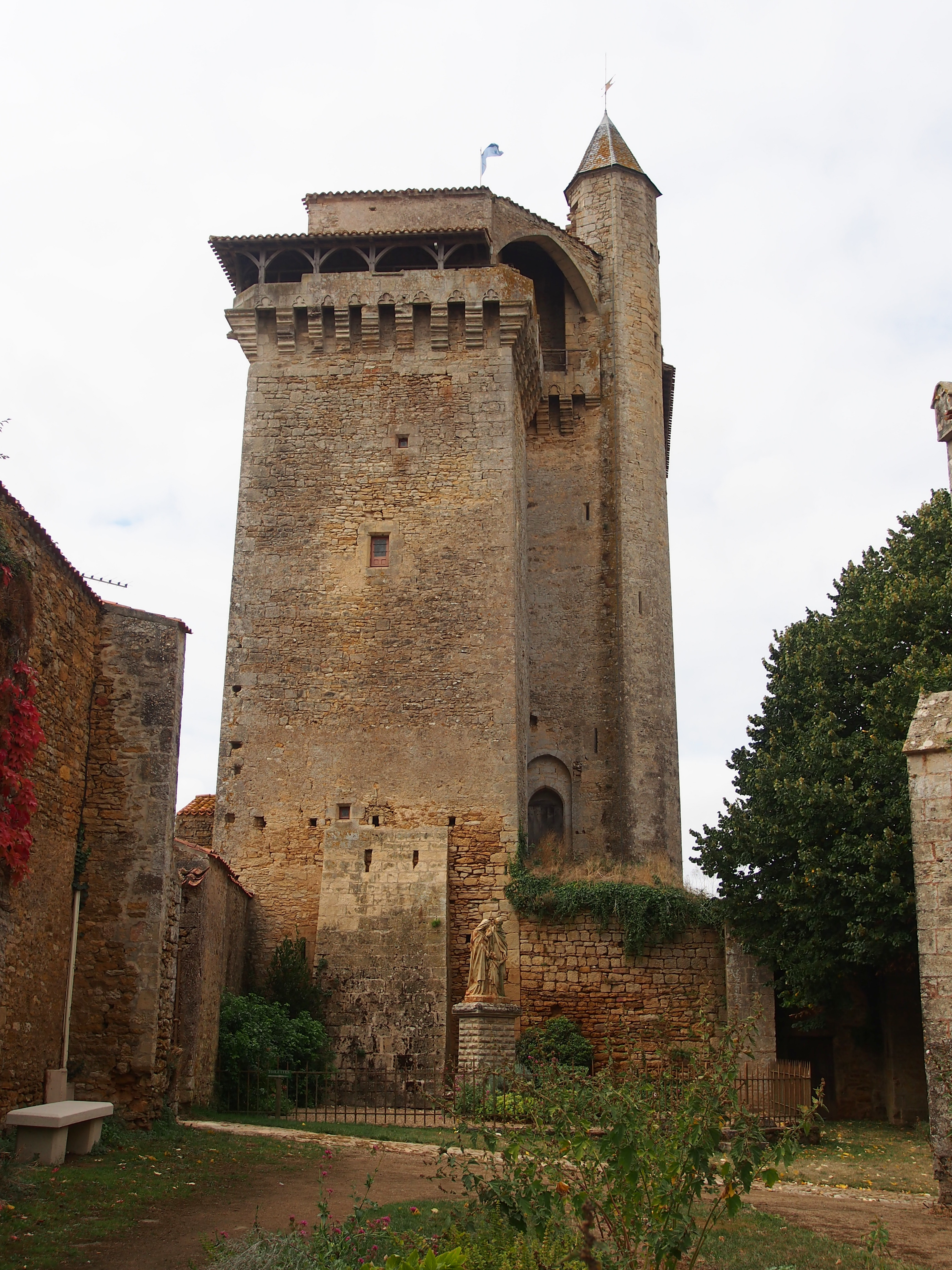 Photographed on vacation in the Vendée.